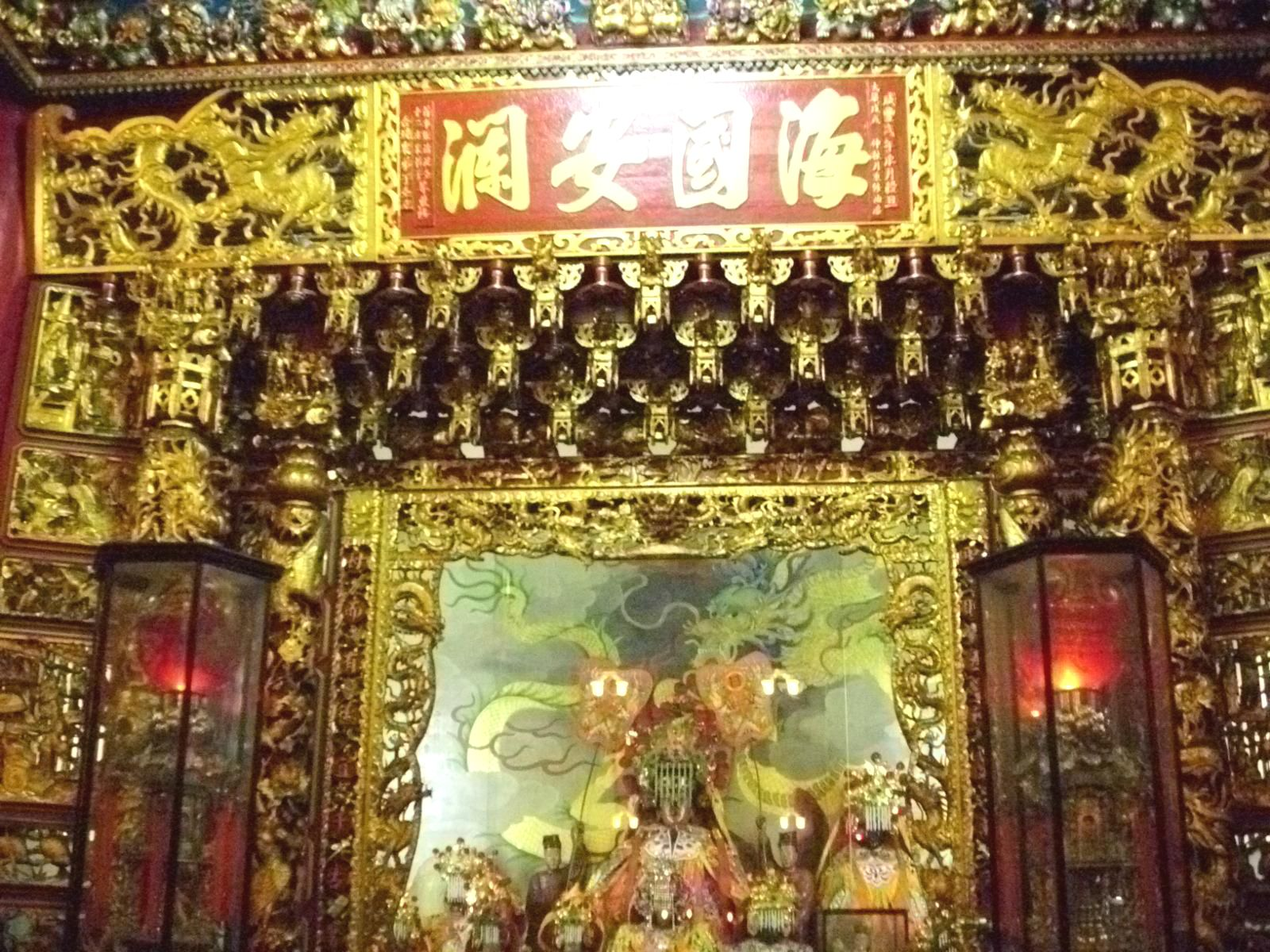 Yonĝing Temple, Daya, Taichung.中文（台灣）: 位在台中大雅。